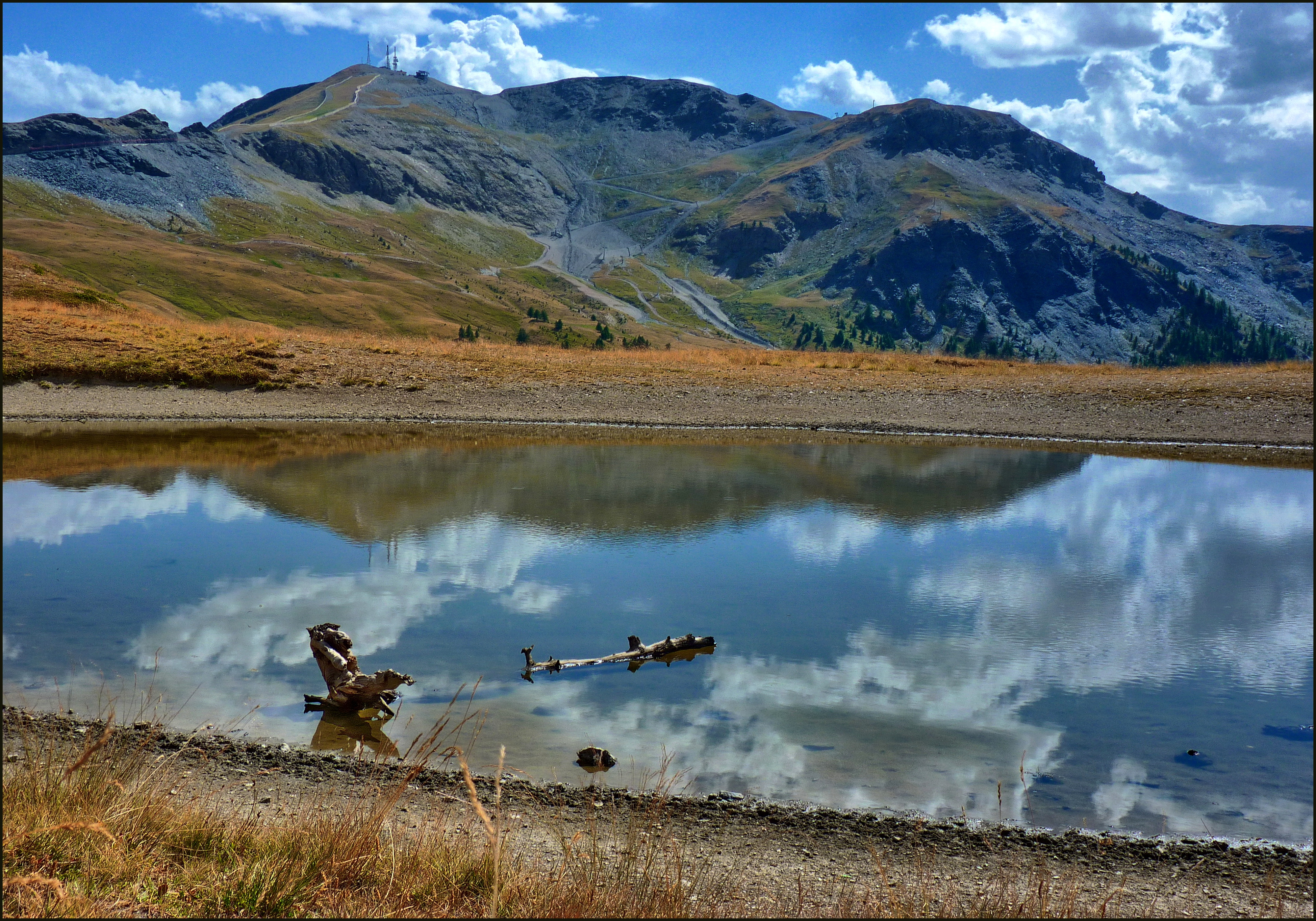 Mount Fraiteve mirrored in the lake